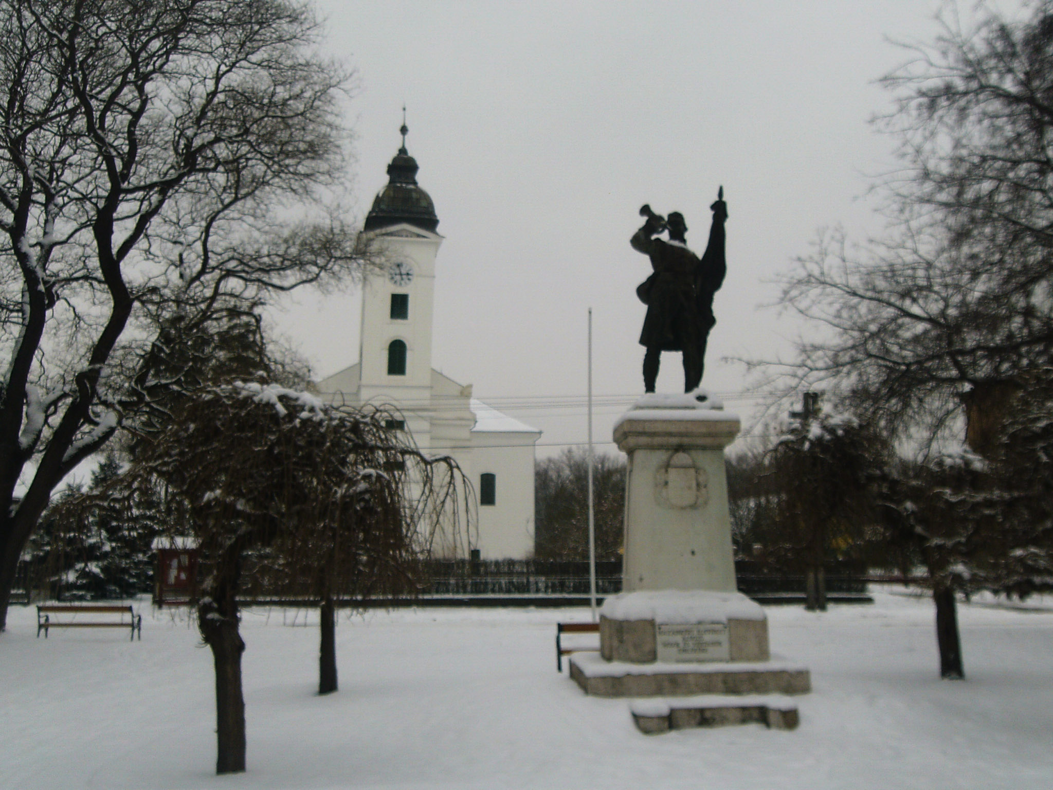 Refomed church. - Dunavecse, Hungary Világháborús honvéd hősi emlékmű, (Weisze Béla, 1930) - Dunavecse, Hősök tere